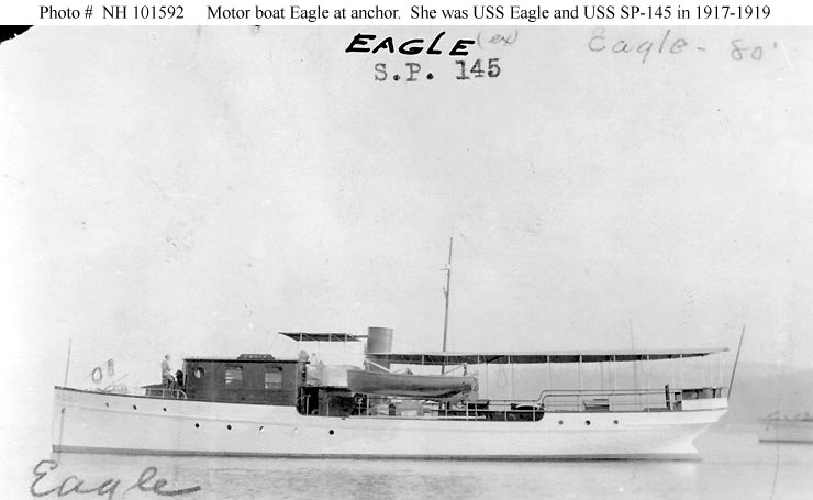 Civlian motorboat Eagle prior to her United States Navy service as patrol boat USS Eagle (SP-145), later USS SP-145.